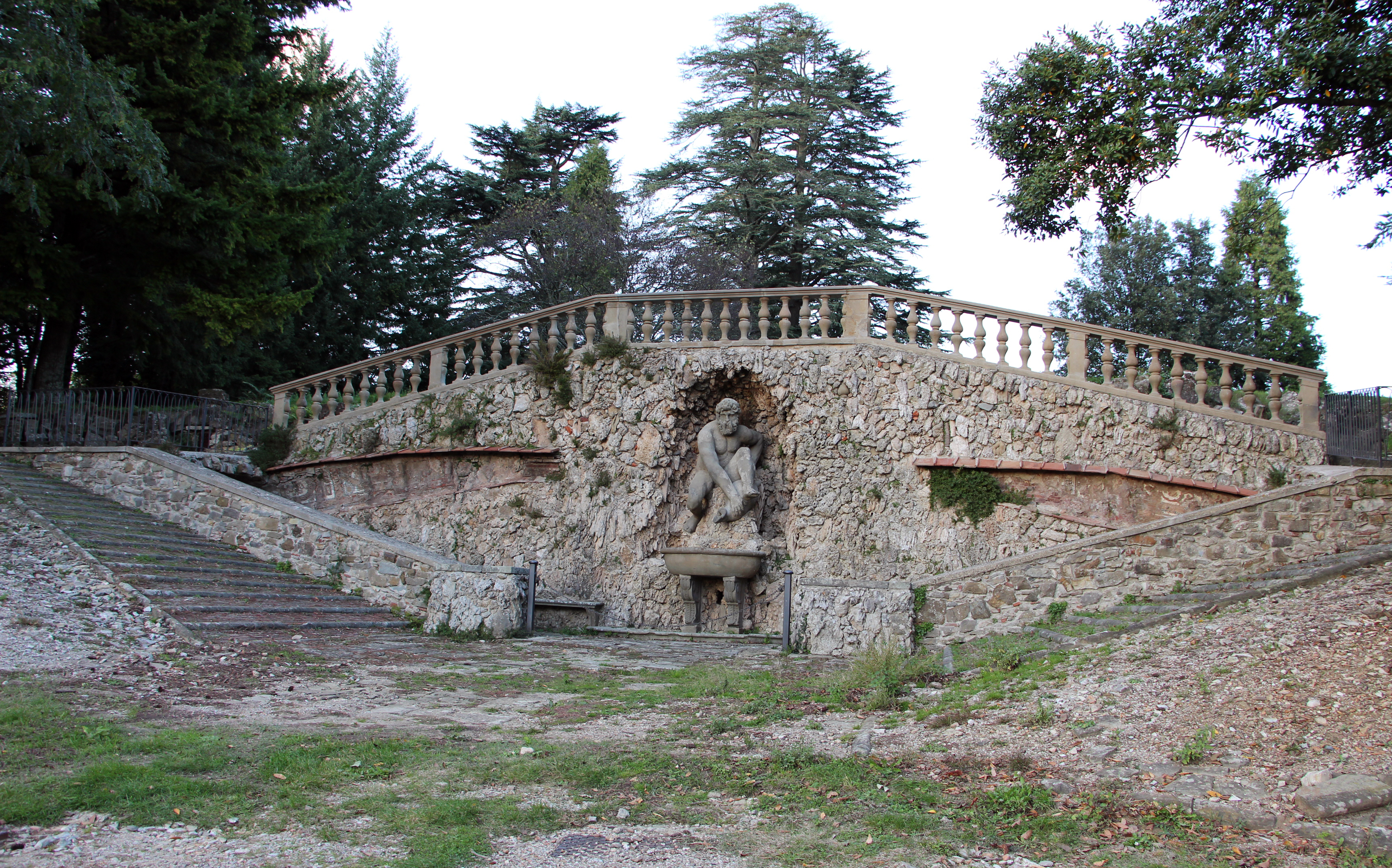 Villa Demidoff (Pratolino) - Park